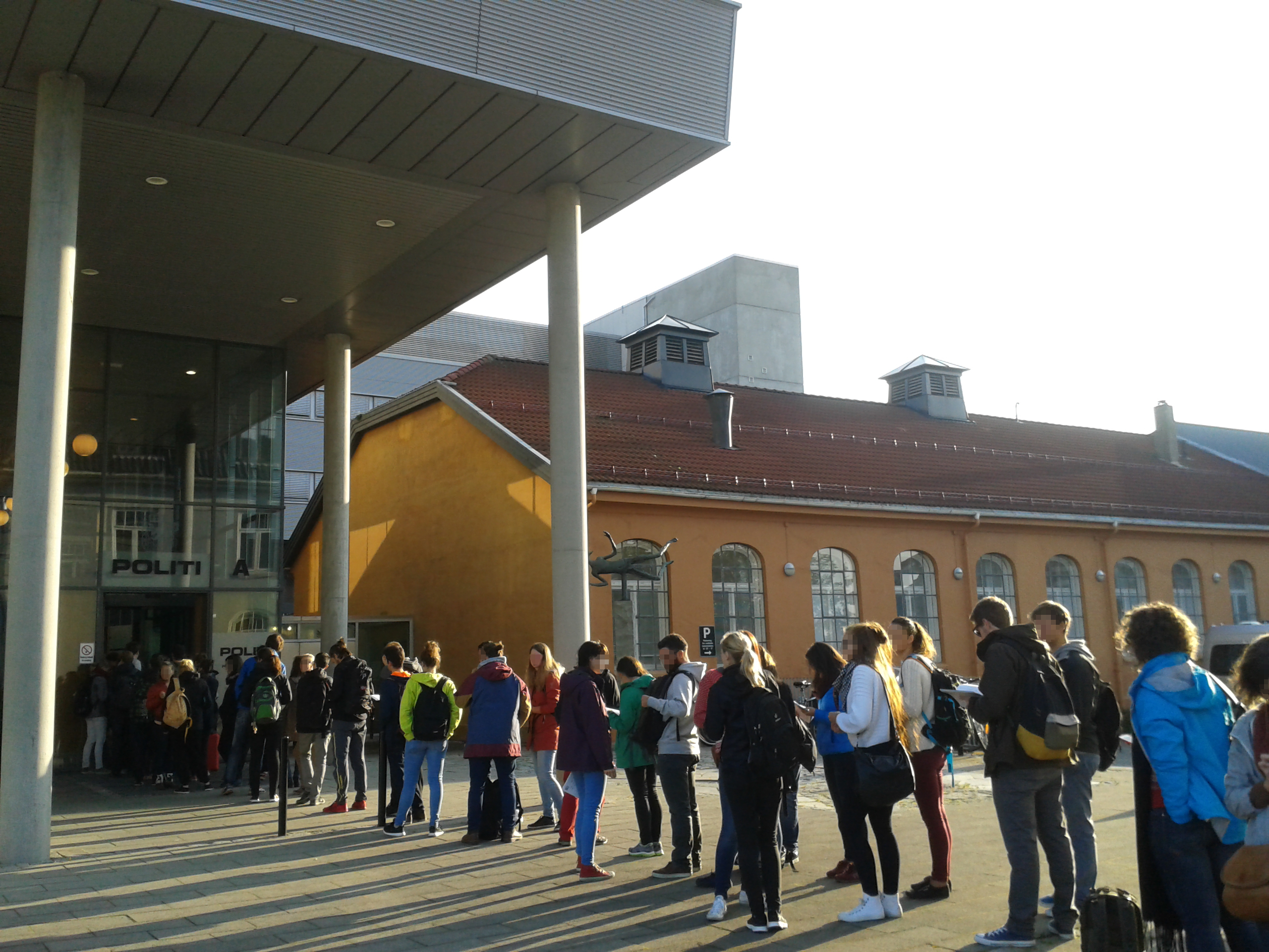 International students waiting at the Police Station of Trondheim (Sør-Trøndelag politidistrikt, Gryta 4, N-7010 Trondheim) to get registered for their exchange semester(s).